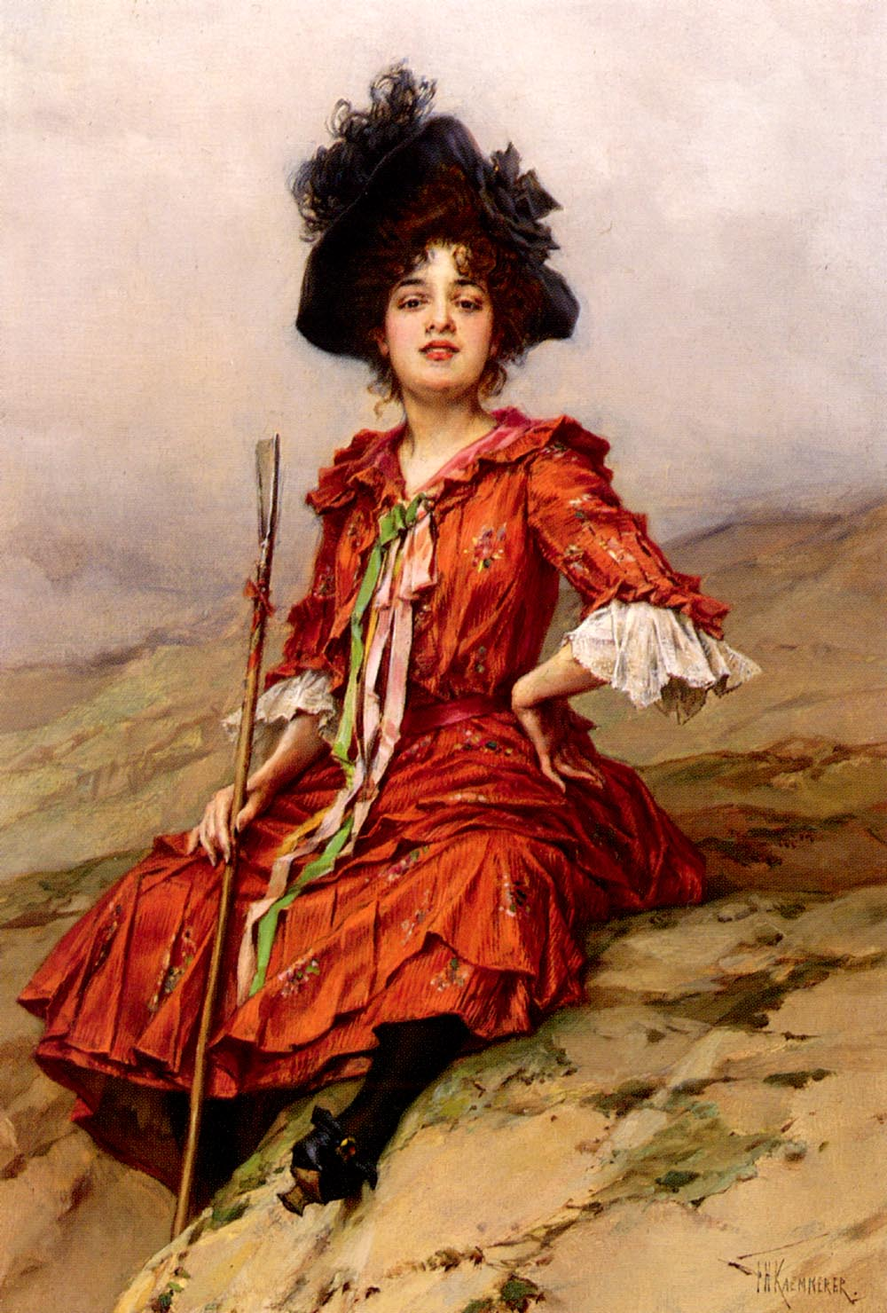 By the sea